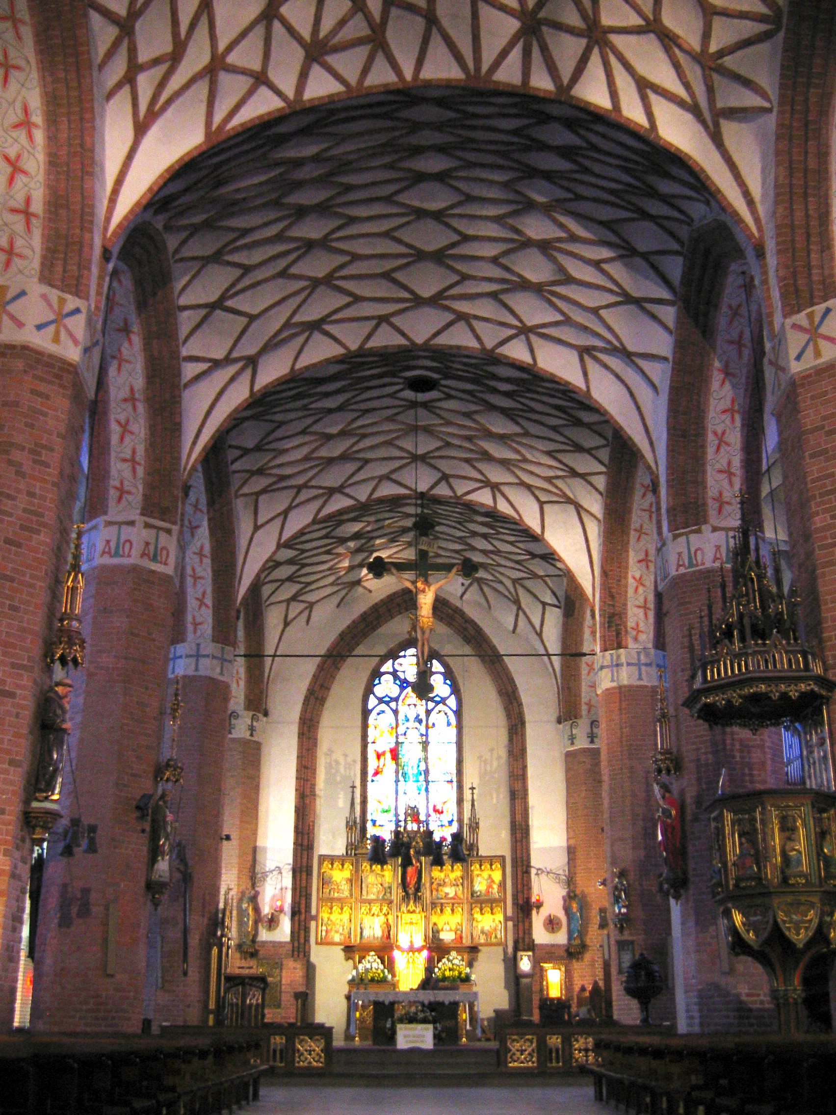 Concathedral basilica in Olsztyn